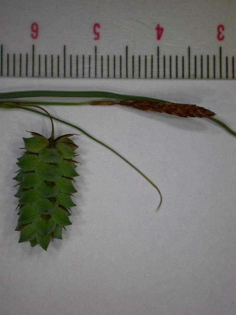 Carex maximowiczii(Cyperaceae) Japanese name:Gouso Date;2004,05,02;Tanabe city, Wakayama prefecture, Japan Author;Keisotyo